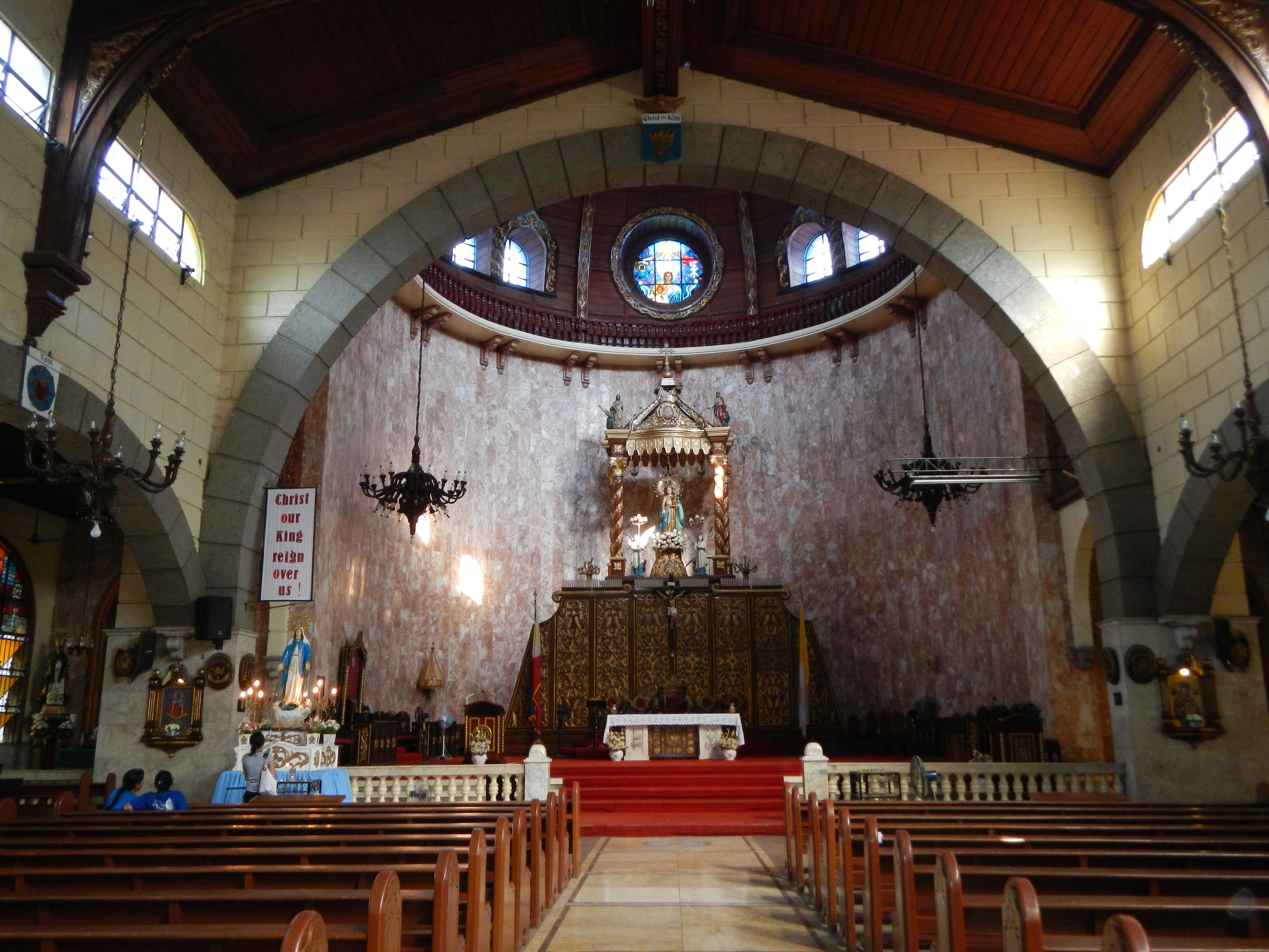 1578 Basilica Minore of Our Lady of Charity (Sta.Monica Parish Agoo La Union) Vicariate of St. Francis Xavier Vicar Forane: Father Raul S. Panay Agoo (F-1578) 2504 La Union, Philippines Titular: St. Monica, May 4 Parish Priest: Msgr. Alfonso V. Lacsamana, PC Phone: +63 72 710-0458Parish Vicar: Father Liberato A. Apusen [1] The only basilica minore north of Manila. [2] Agoo, La Union[3][4] Roman Catholic Diocese of San Fernando de La Union[5]